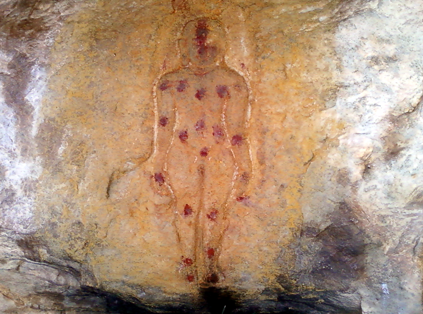 Jain Tirthankara Image on Rockcut Caves of Ghanikonda at Ramatheertham of Vizianagaram District in Andhra Pradesh